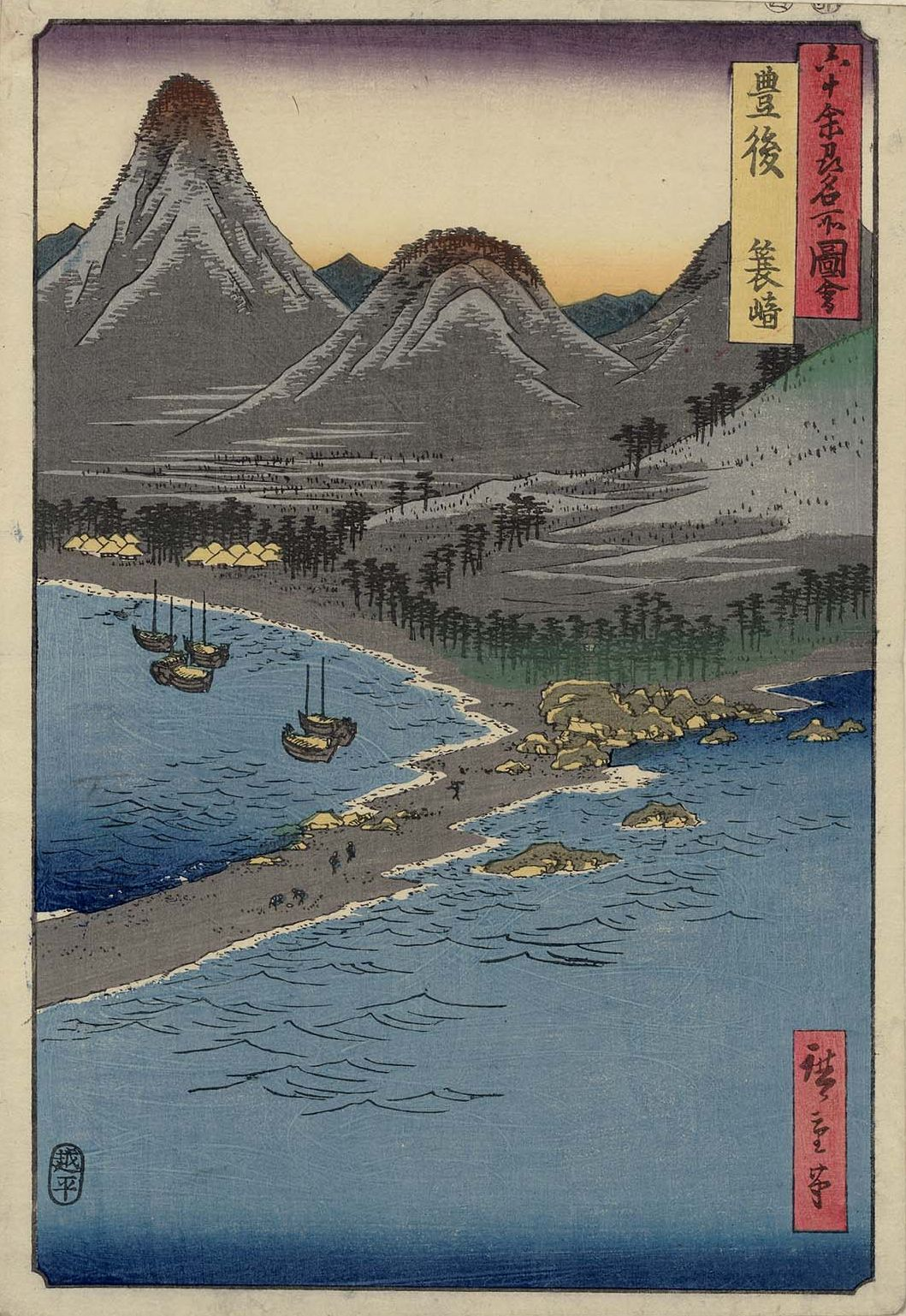 Part of the series Famous Places in the Sixty-odd Provinces, No. 62 (Saikaidō group)